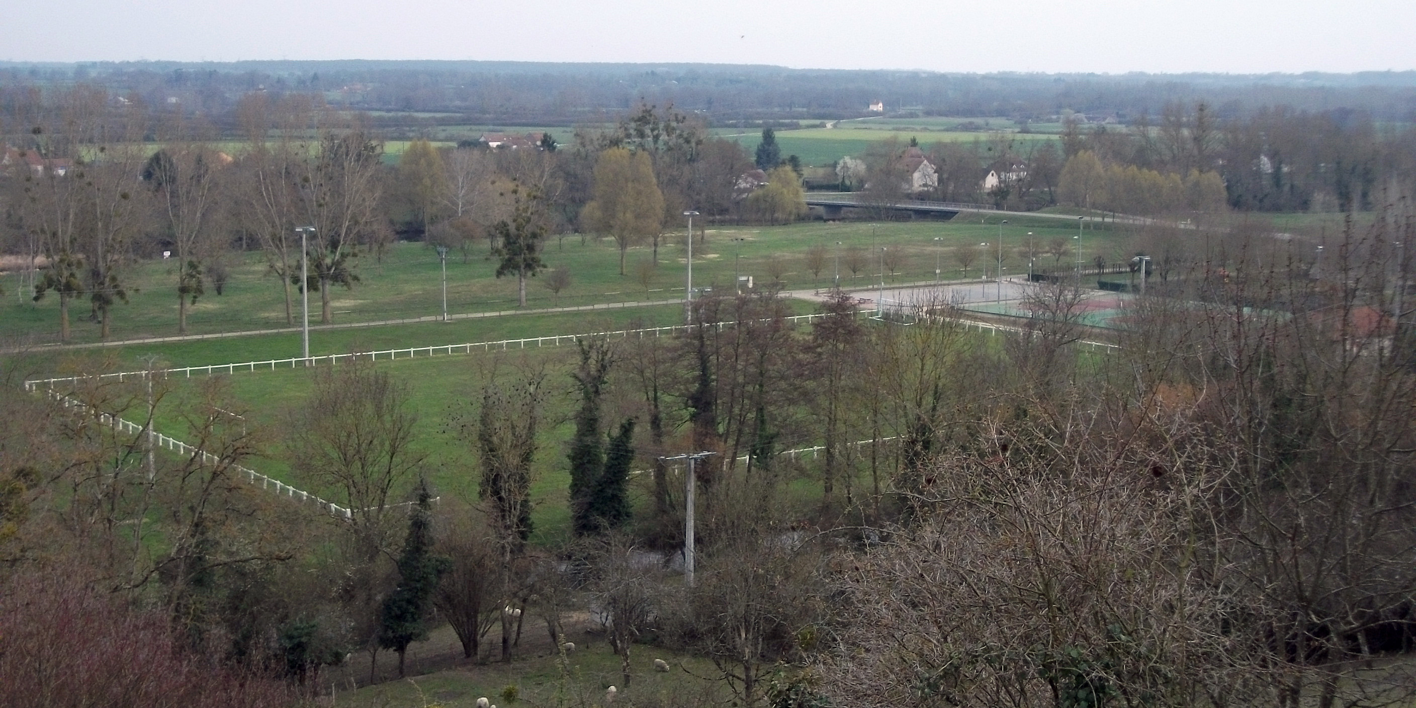 Sports field (soccer and tennis) in Bayet [10548 retouched]